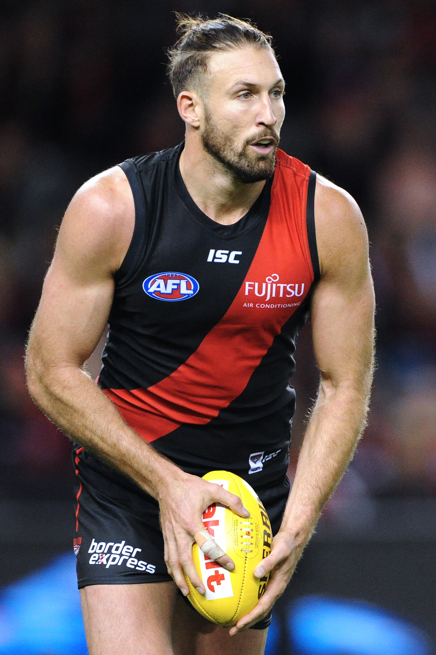 Cale Hooker of Essendon during the 2018 AFL round 6 match between Essendon and Melbourne at Etihad Stadium on Sunday, 29 April 2018 in Melbourne, Victoria.